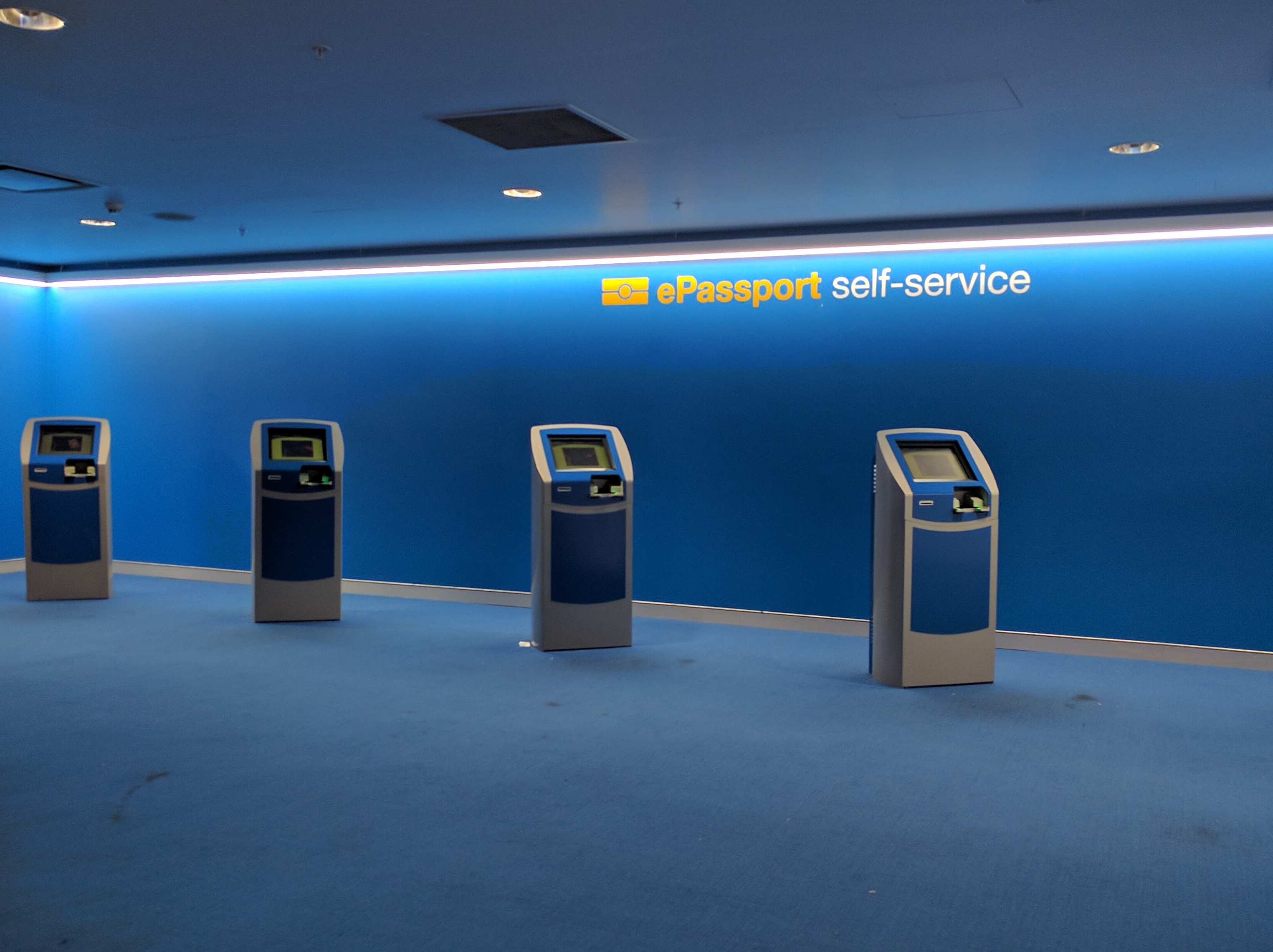 Smartgate Arrivals at Sydney Airport